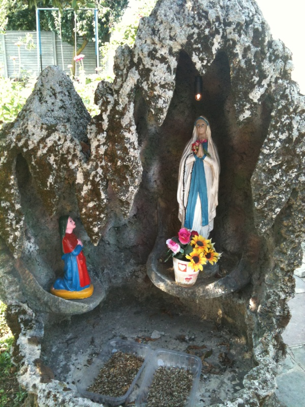 Art of Lourdes